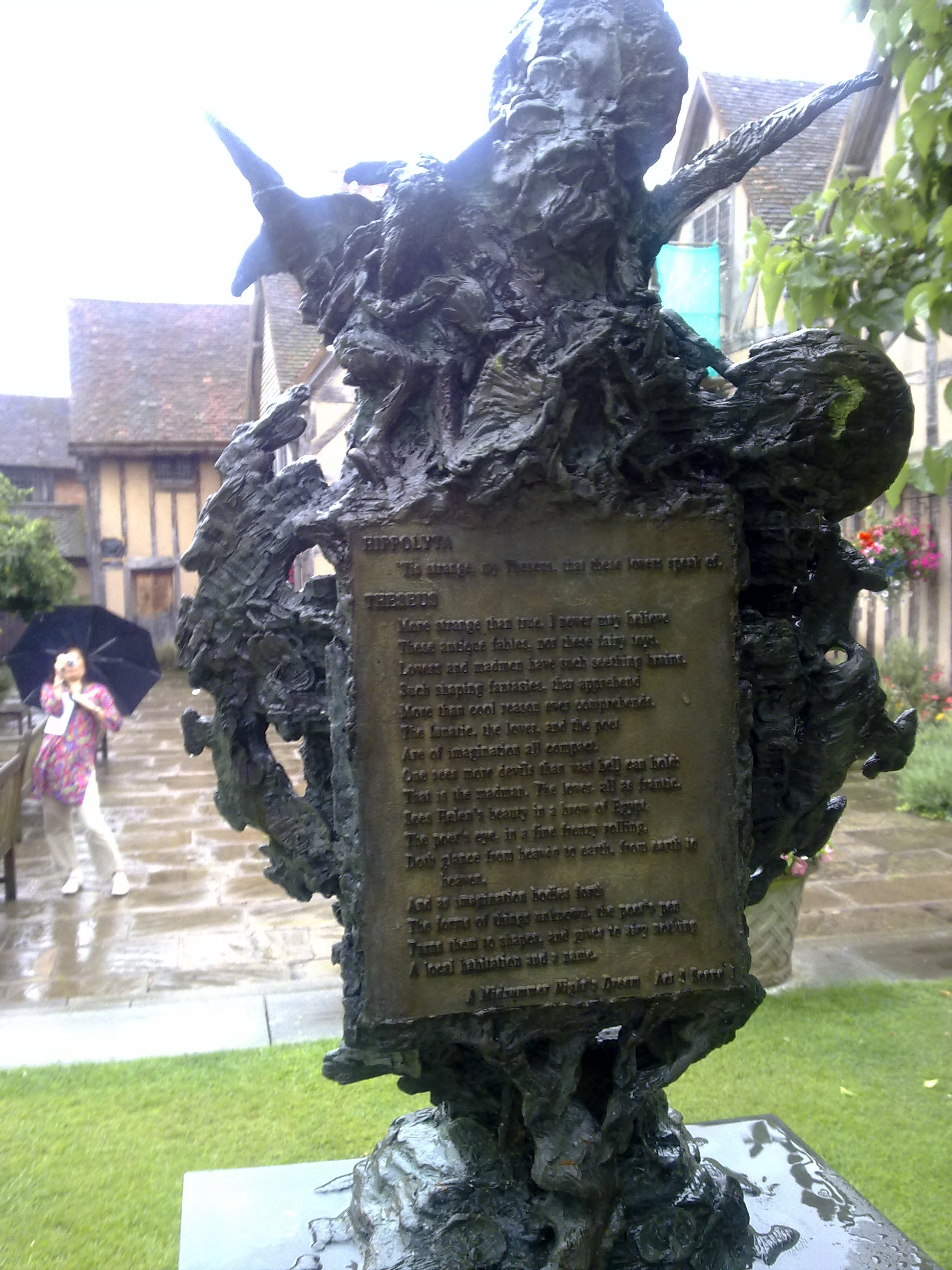 An excerpt from A Midsummer's Dream embossed at Anne Hathaway's Cottage in Stratford-upon-Avon.